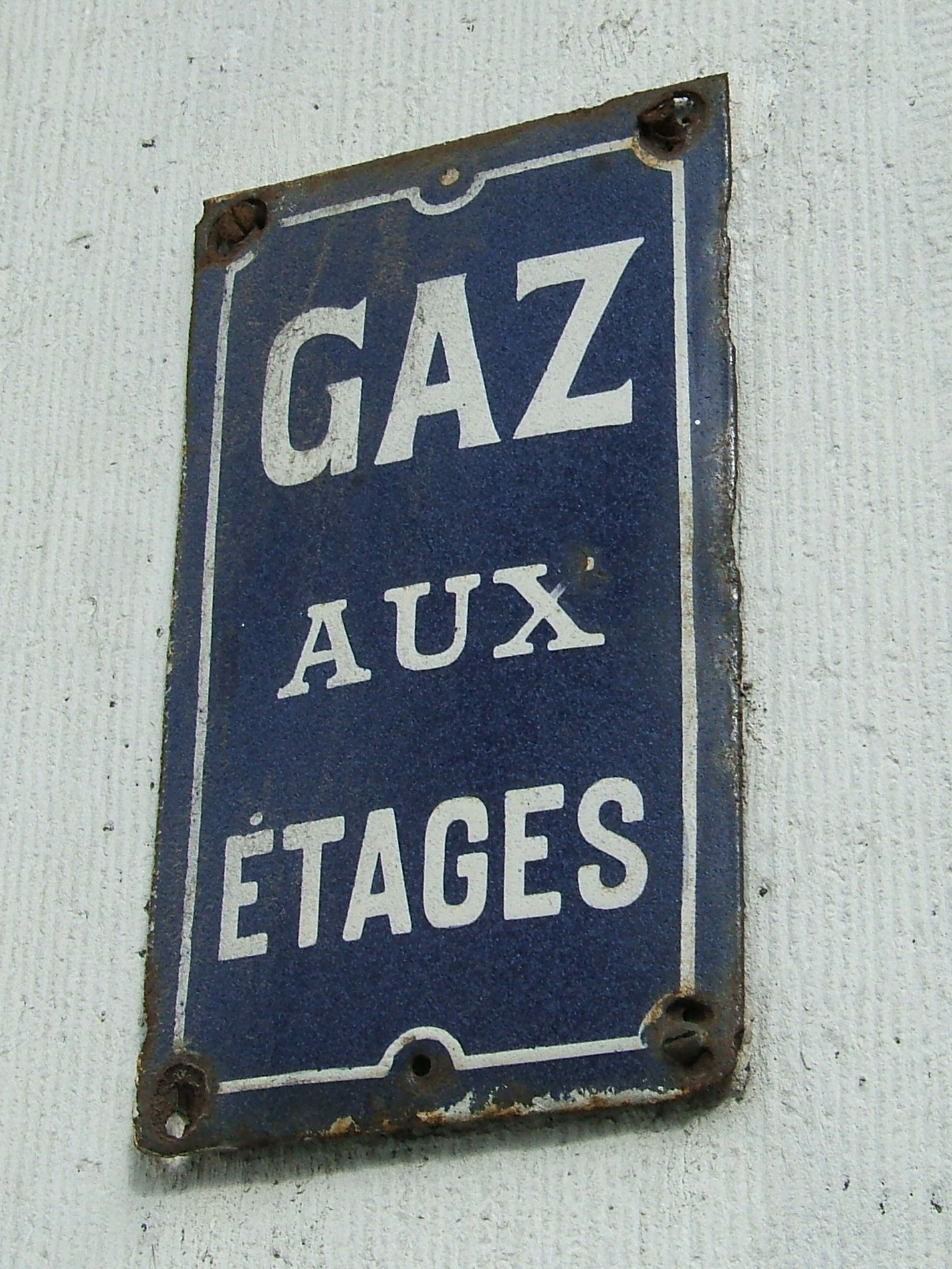 "Gas on upper floors"; Typical sign on older Brussels houses.